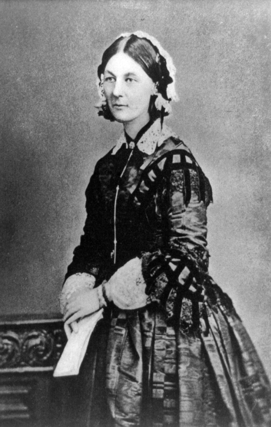 Florence Nightingale, pioneer of modern nursing. This print was made in 1920 from the original negative plate.